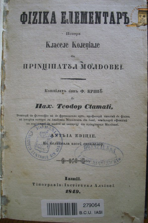 Front page of "Fizica elementară" (1849) by Teodor Stamati